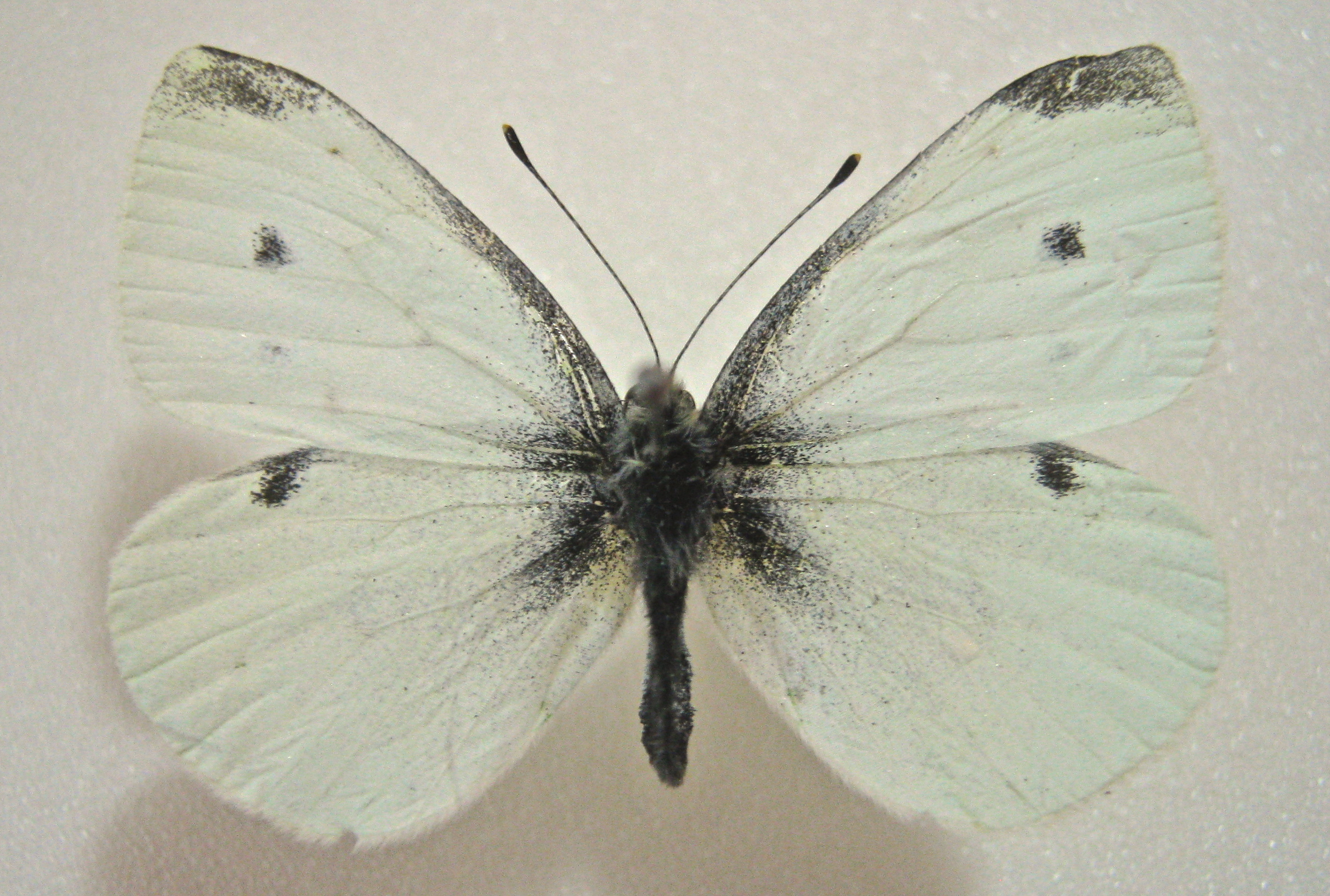 A pinned male specimen of Pieris rapae.